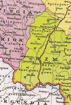 Alsace around the year 1000. Detail of map mentioned below.